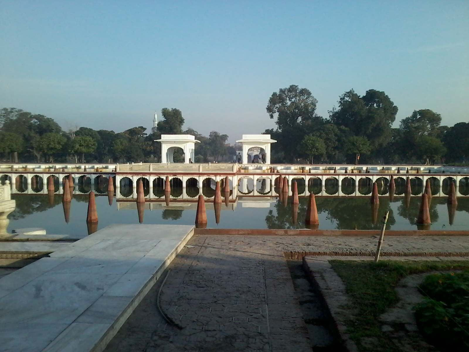 Faiz Bakhsh Tarrace of the Garden.